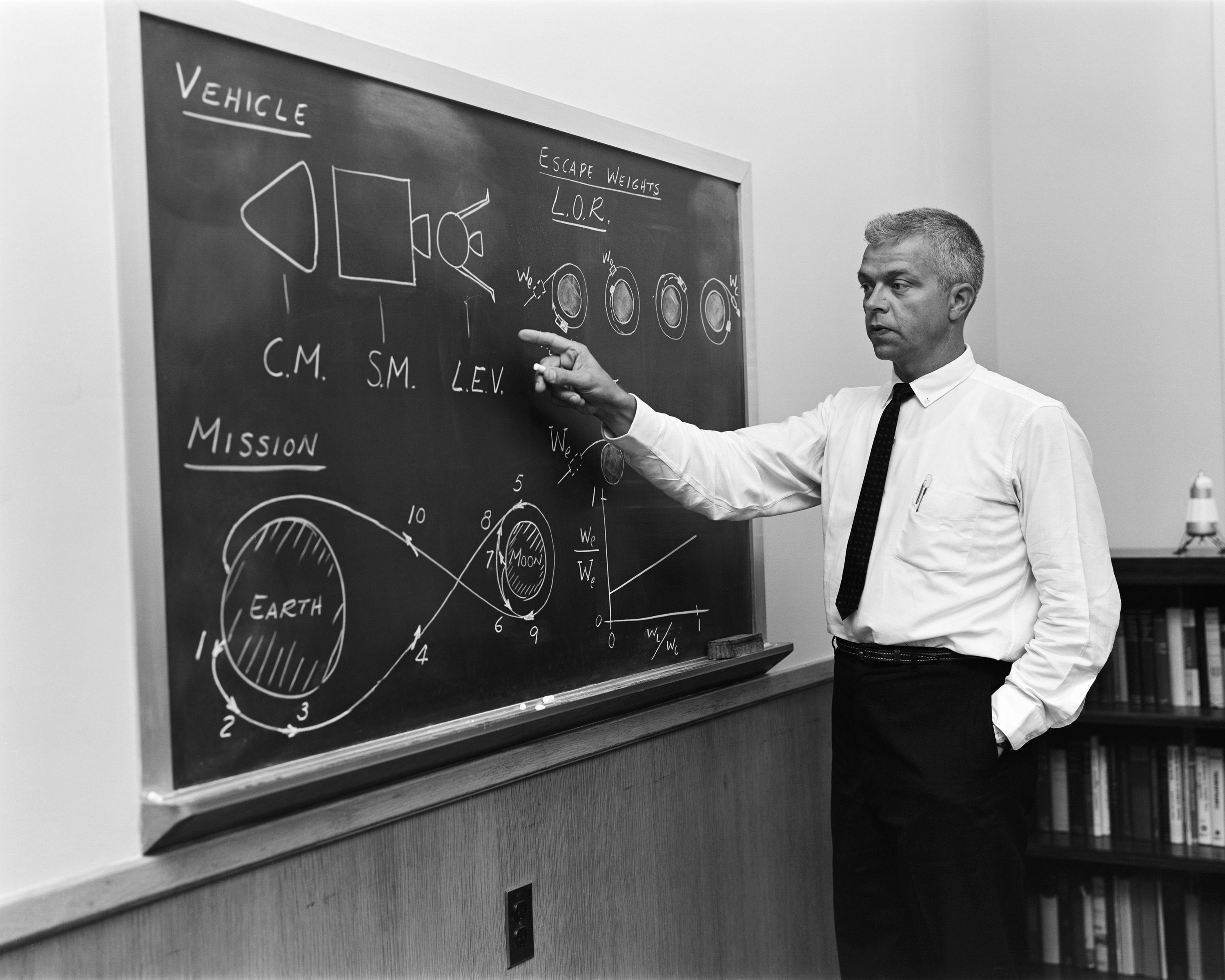 John C. Houbolt at blackboard, showing his space rendezvous concept for lunar landings. Lunar Orbital Rendezvous (LOR) would be used in the Apollo program. Although Houbolt did not invent the idea of LOR, he was the person most responsible for pushing it at NASA.